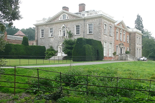 Sotterley Hall in Sotterley, Suffolk, England. A Grade I listed 18th-century house.